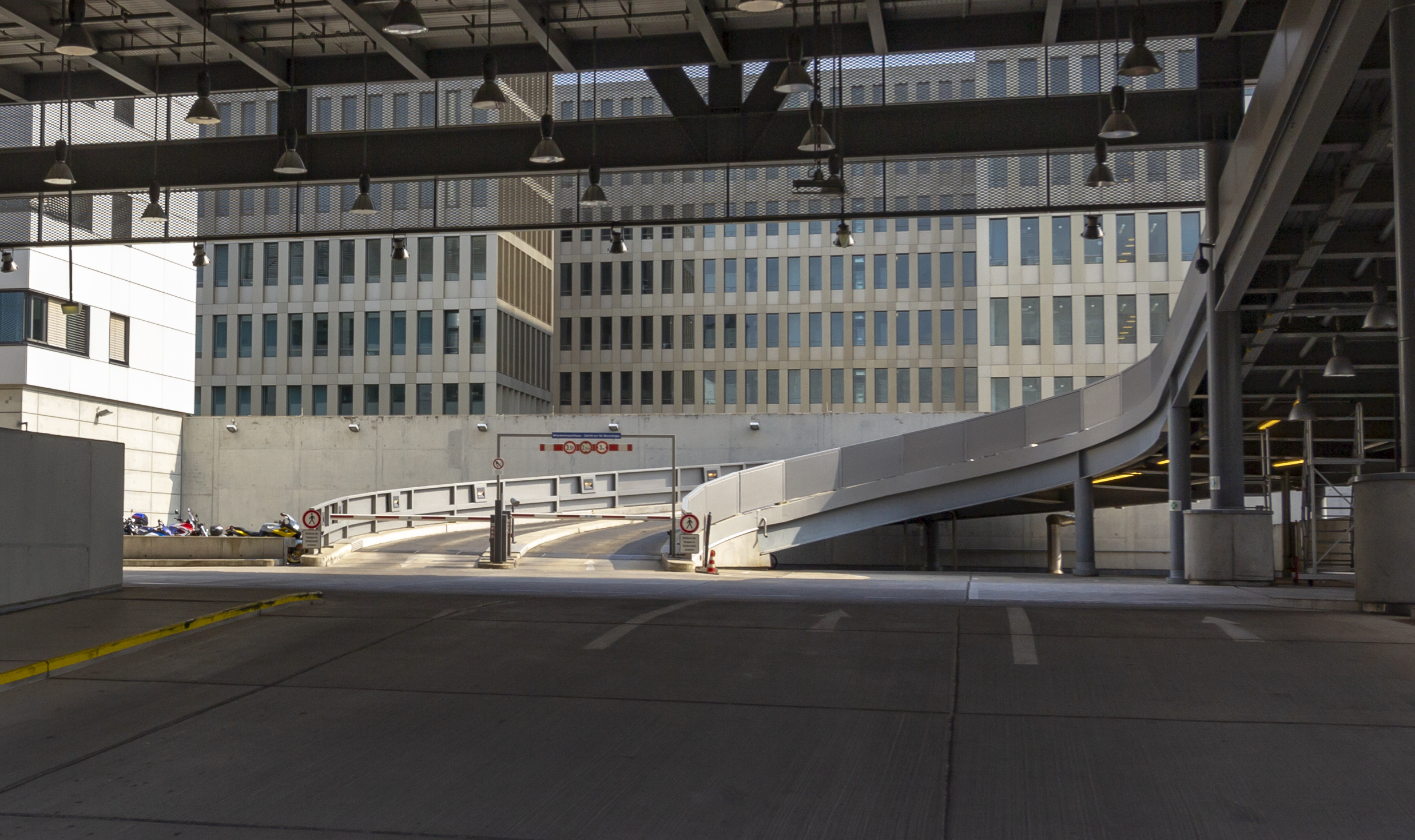 Headquarters of the Federal Intelligence Service of the Federal Intelligence Service in Berlin.